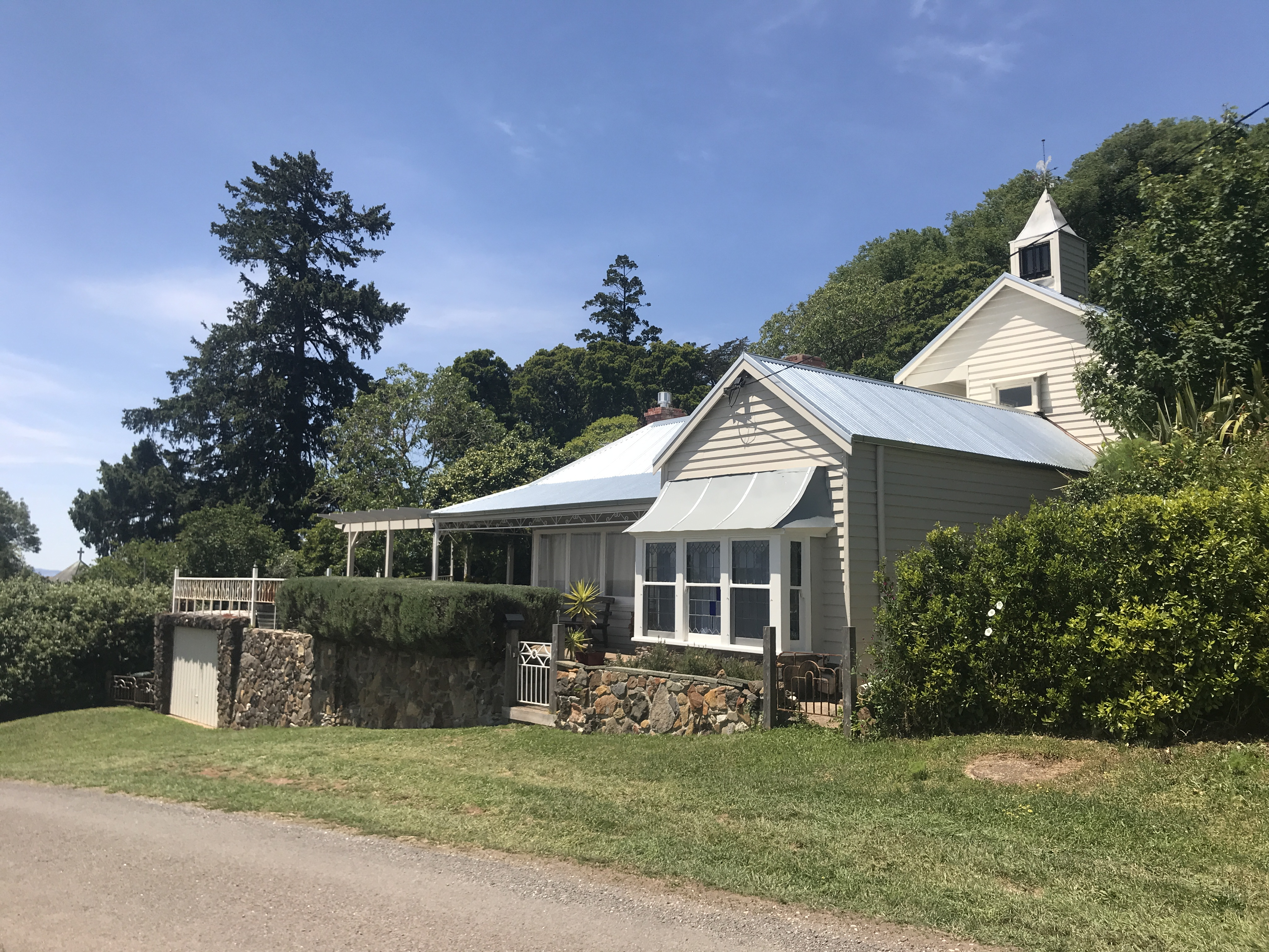 15 Daly Street in December 2019